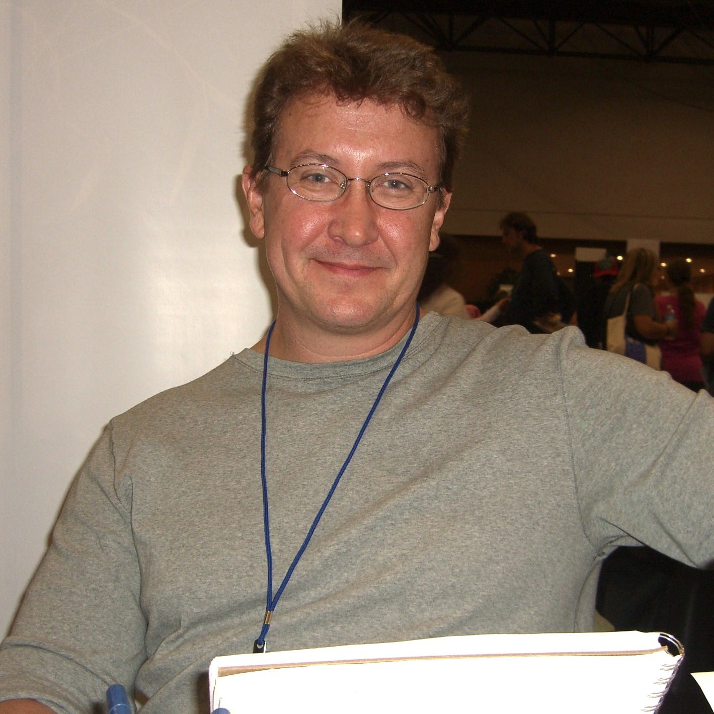 Comic book creator Brian Haberlin, at the New York Comic Convention in Manhattan, October 10, 2010. Photo by Luigi Novi. This photo may be used, modified and published for any purpose, only if a easily visible credit to the photographer is placed near the photo in each instance in which it is used. (See licensing information below.) Publication of this photo without this proper attribution constitute copyright infringement. For more information on my photos, you can contact me here.